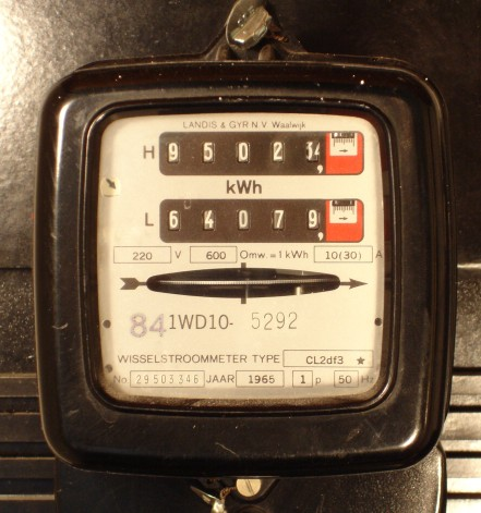 This is an electrical energy counter to measure the consumption from the power grid. Two counters are present as, one for day times, the other operates during the night or weekends. The price per unity energy differs roughly a factor three, making it worthwhile to use the washing machine during the weekend iso. weekdays. Saturday 15 December 2007, Nijmegen, The Netherlands.